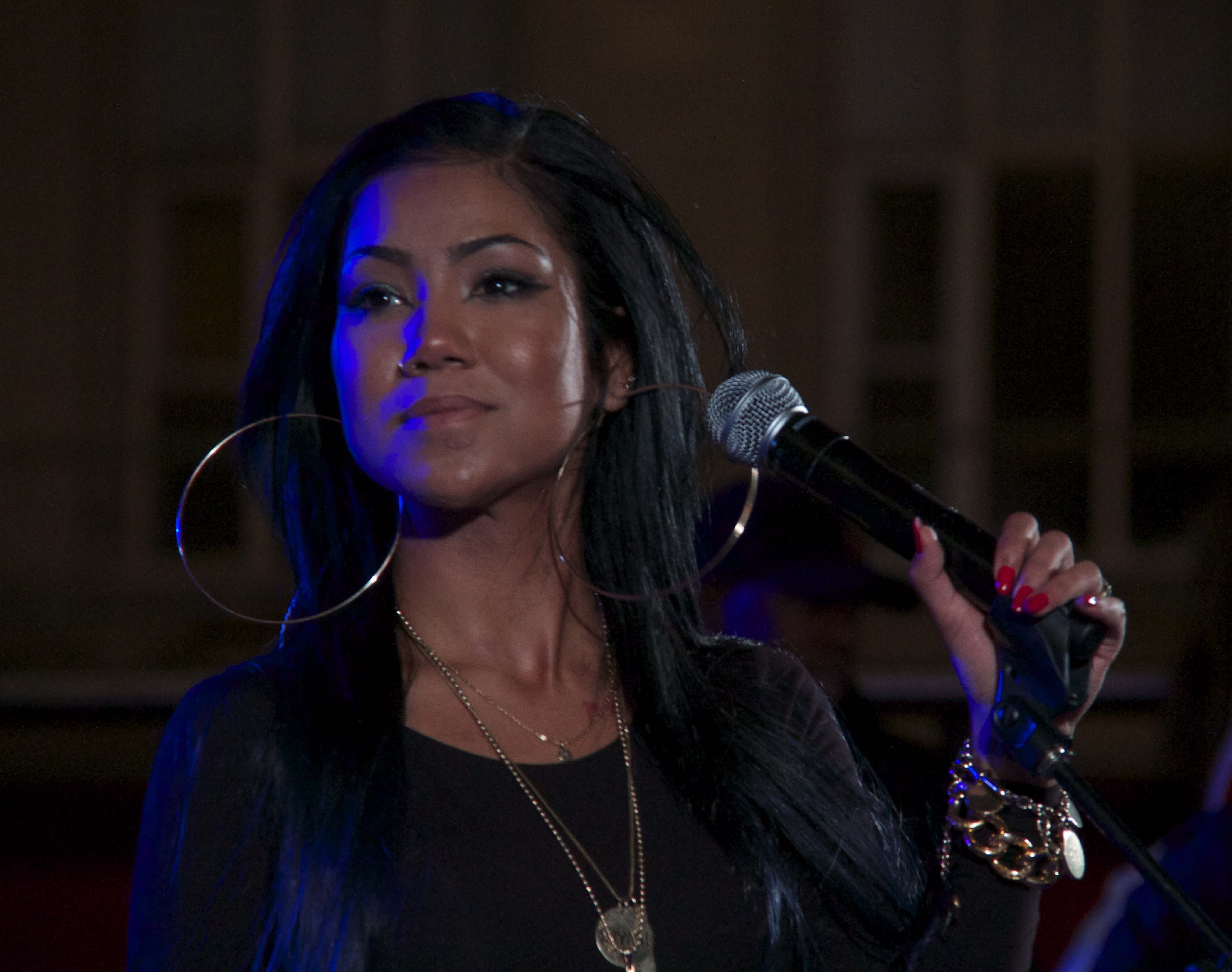 Jhené Aiko performing at the Manifesto Festival on September 22, 2013 in Toronto, Canada.